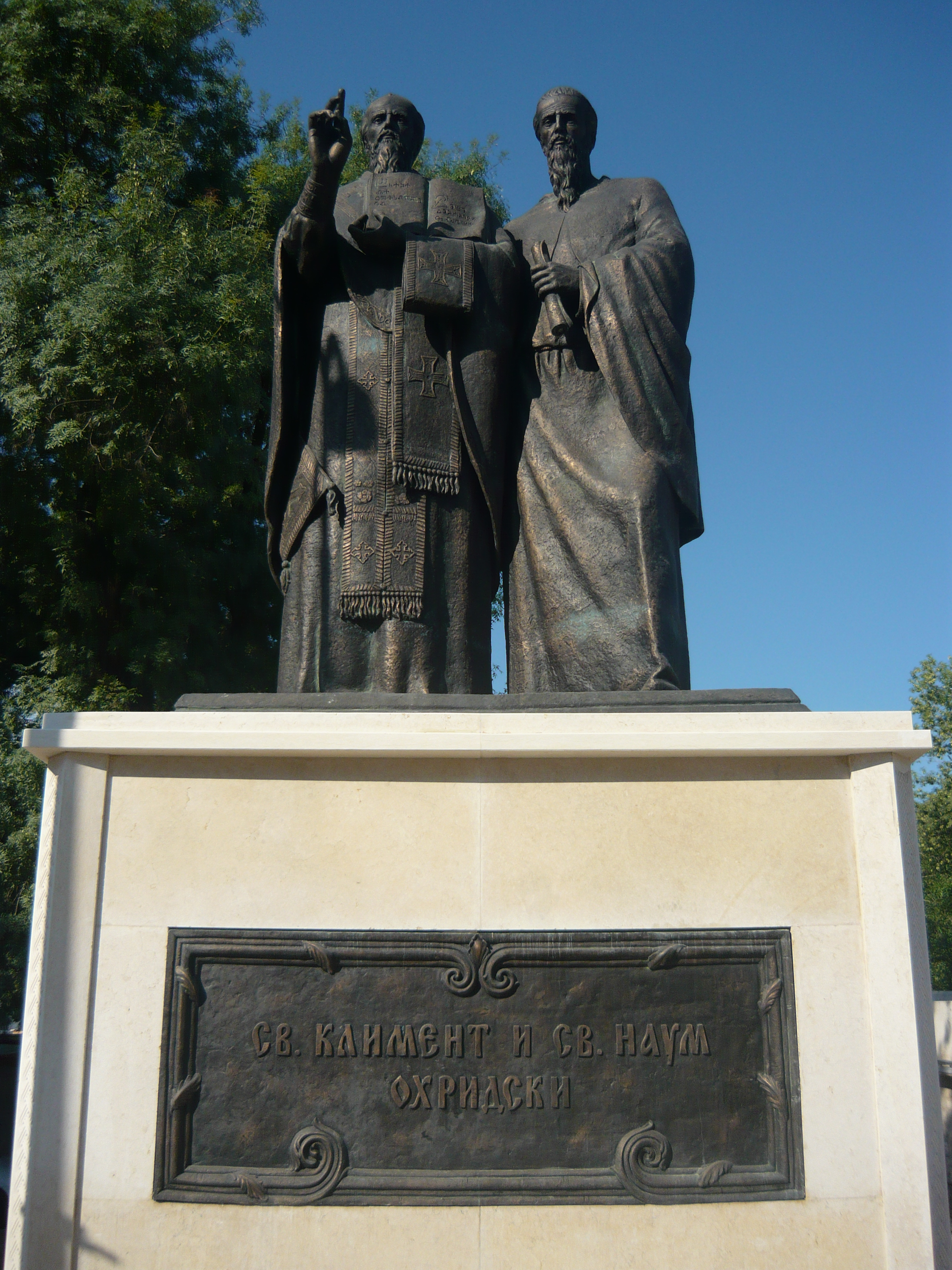 Monument to Saint Clement and Saint Naum of Ohrid in Skopje